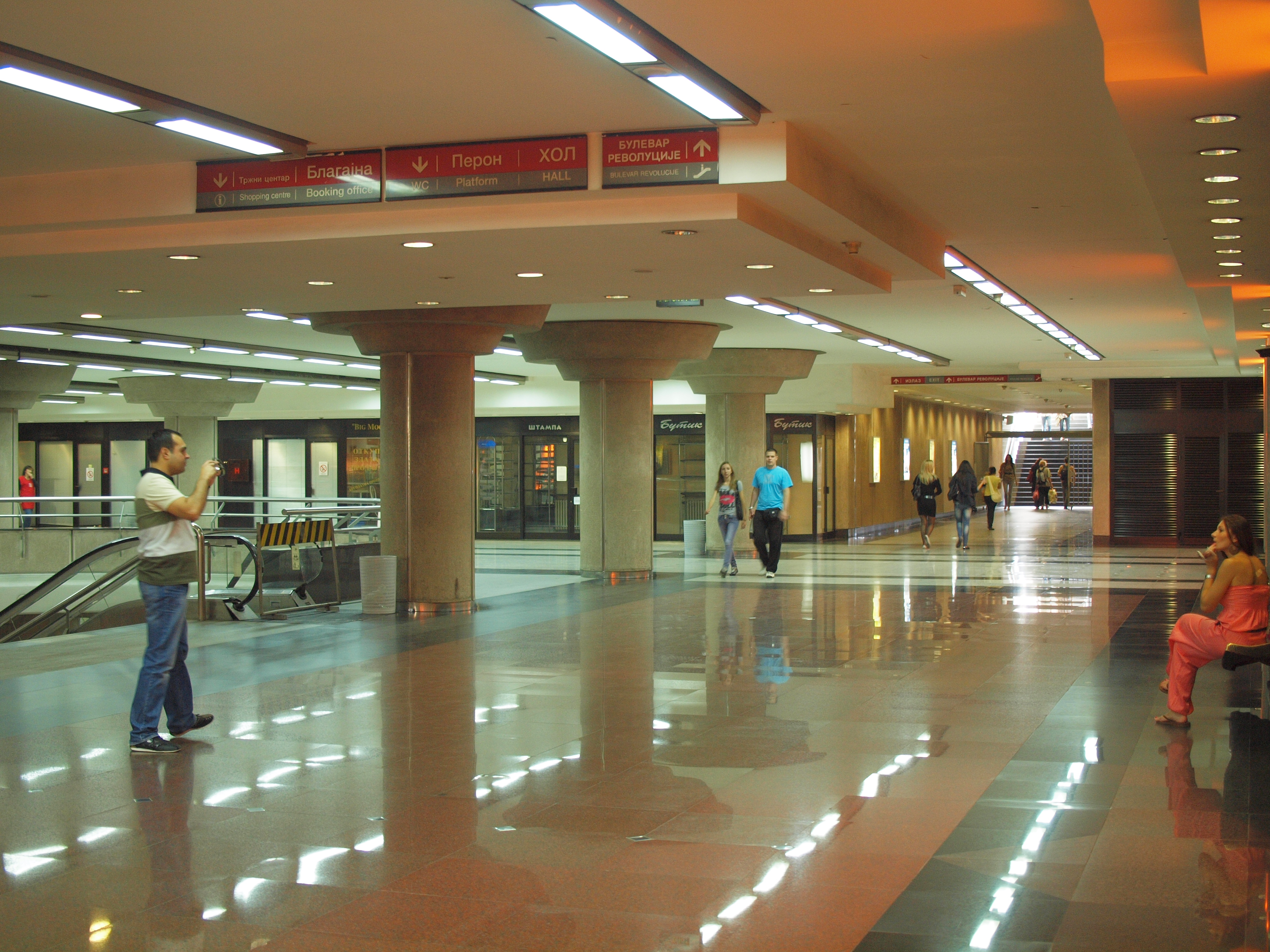 Gallery Vukov spomenik